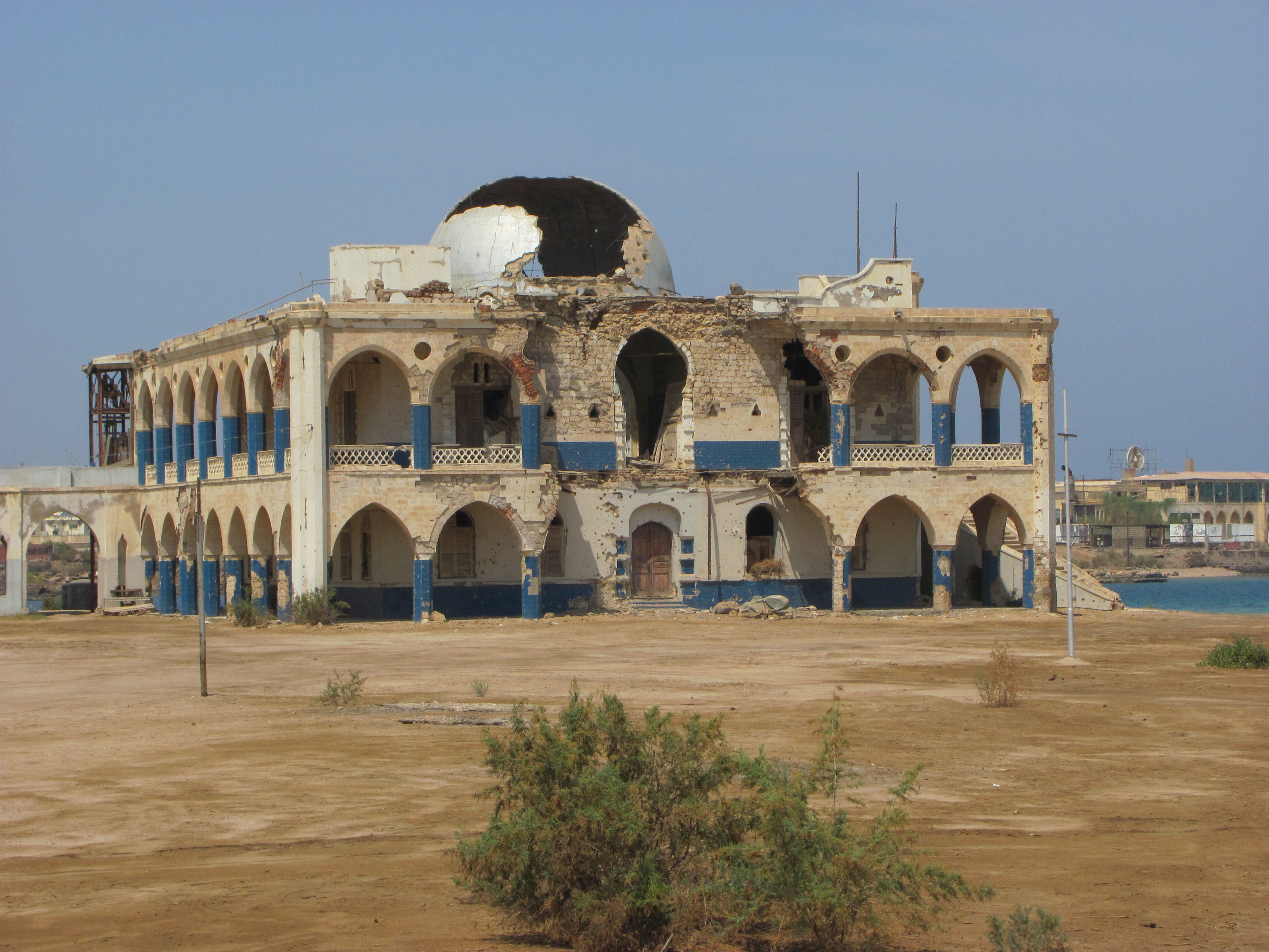 Imperial palace of Massawa, Eritrea